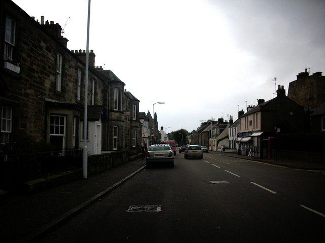 The Fife Coastal road Entering Aberdour